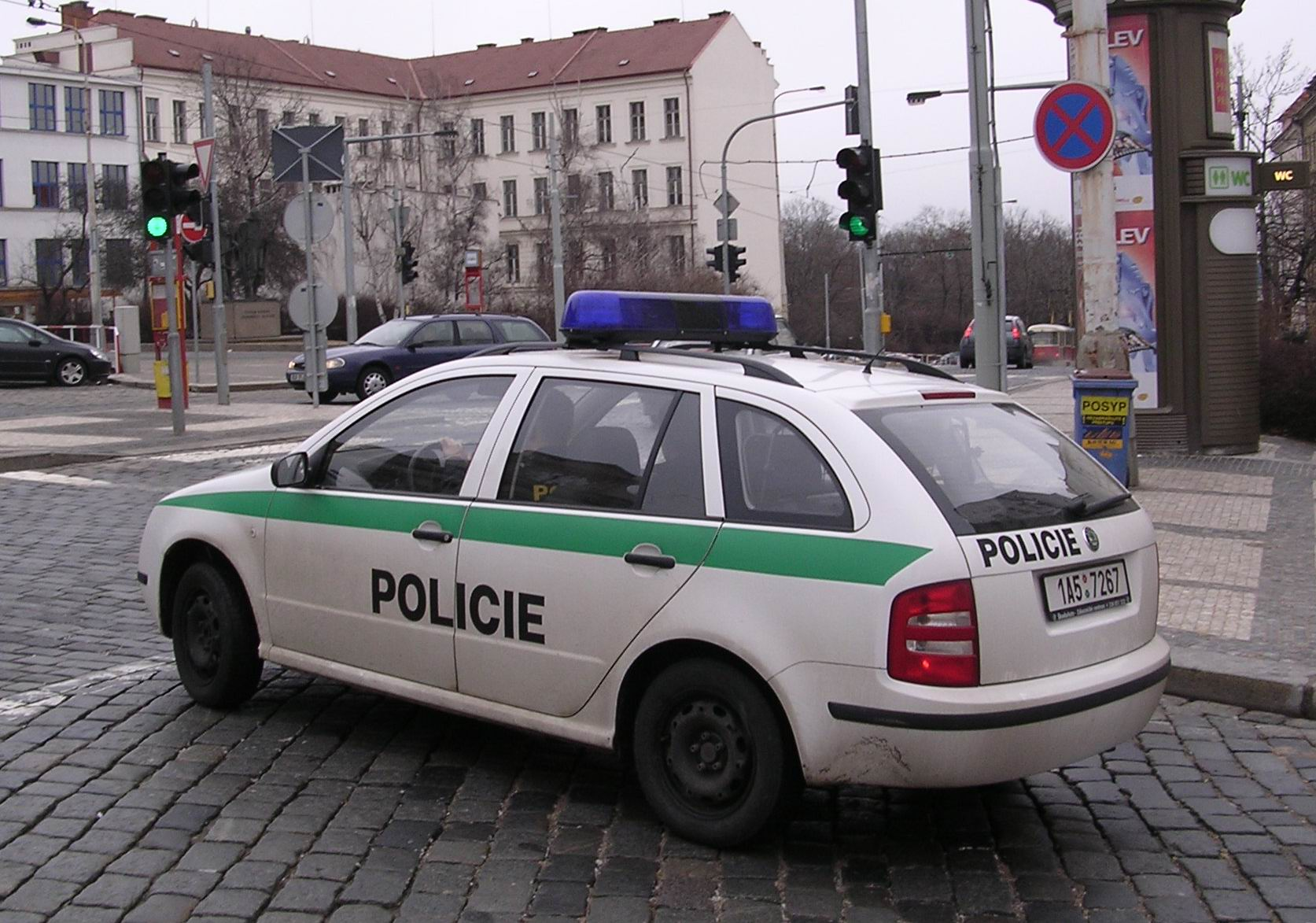 State Police Car in the streets of Prague (at Pohořelec) - Škoda Fabia